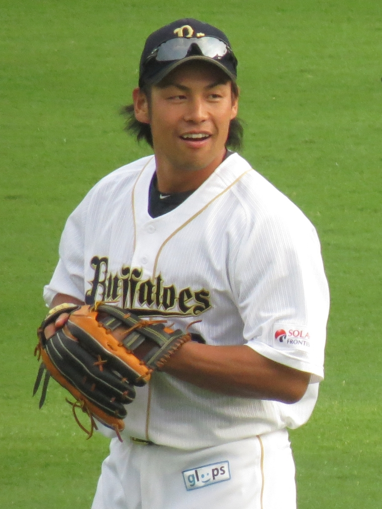 Naotaka Takehara, outfielder of the Orix Buffaloes, at Kobe Sports Park Baseball Stadium.